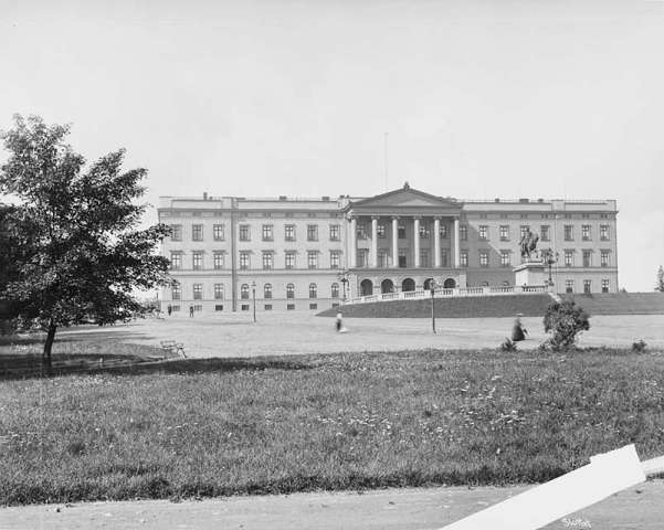 Oslo Royal Palace, in Oslo, Norway. Photography by Axel Lindahl ((1841-1906))